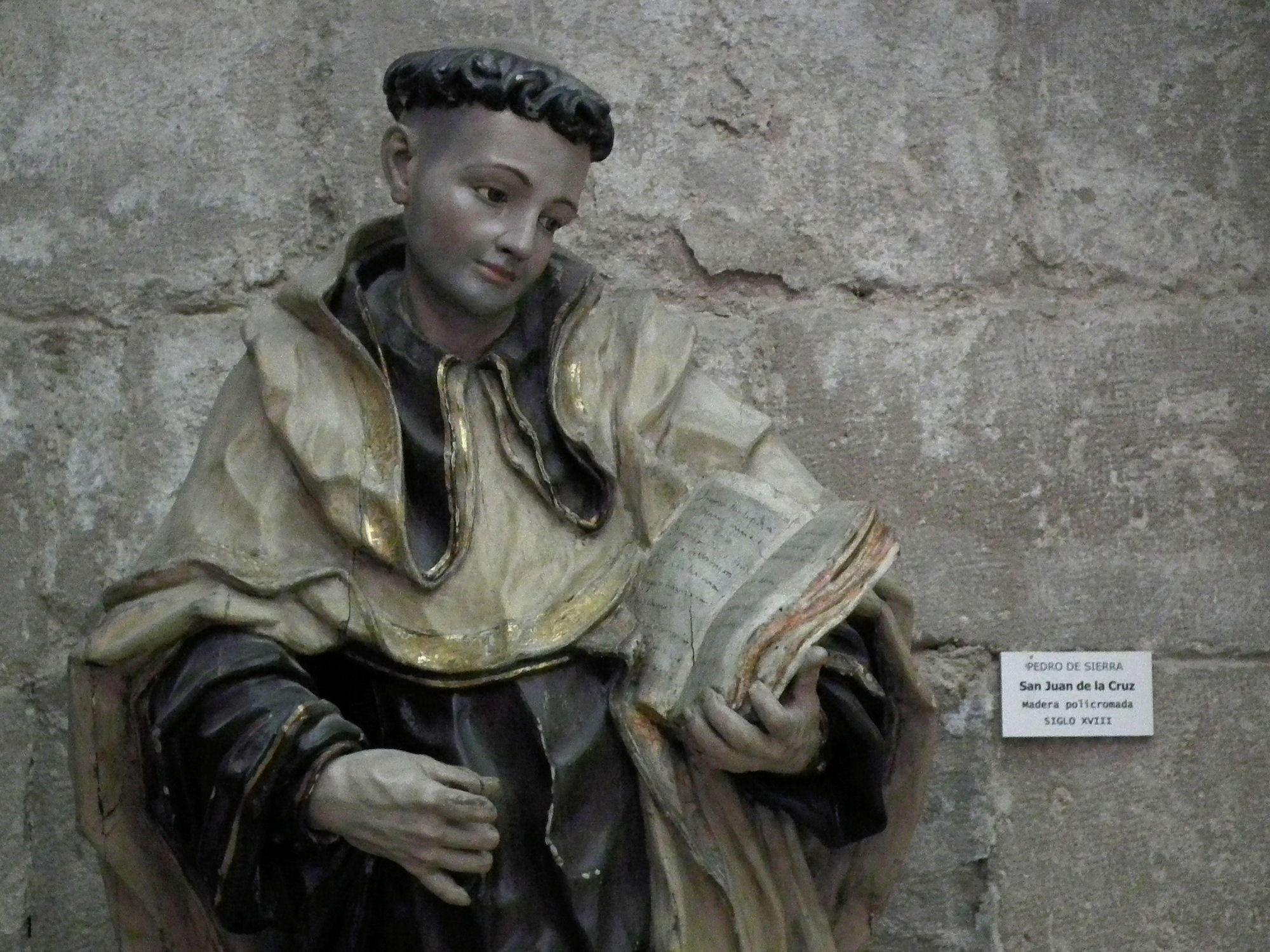 A statue of Saint John of the Cross at the Museo Diocesano y Catedralicio, Valladolid, Castile and León, Spain